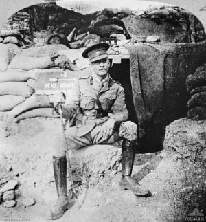 Brigadier General (later General Sir) Henry George Chauvel outside his Headquarters in Monash Valley, Gallipoli